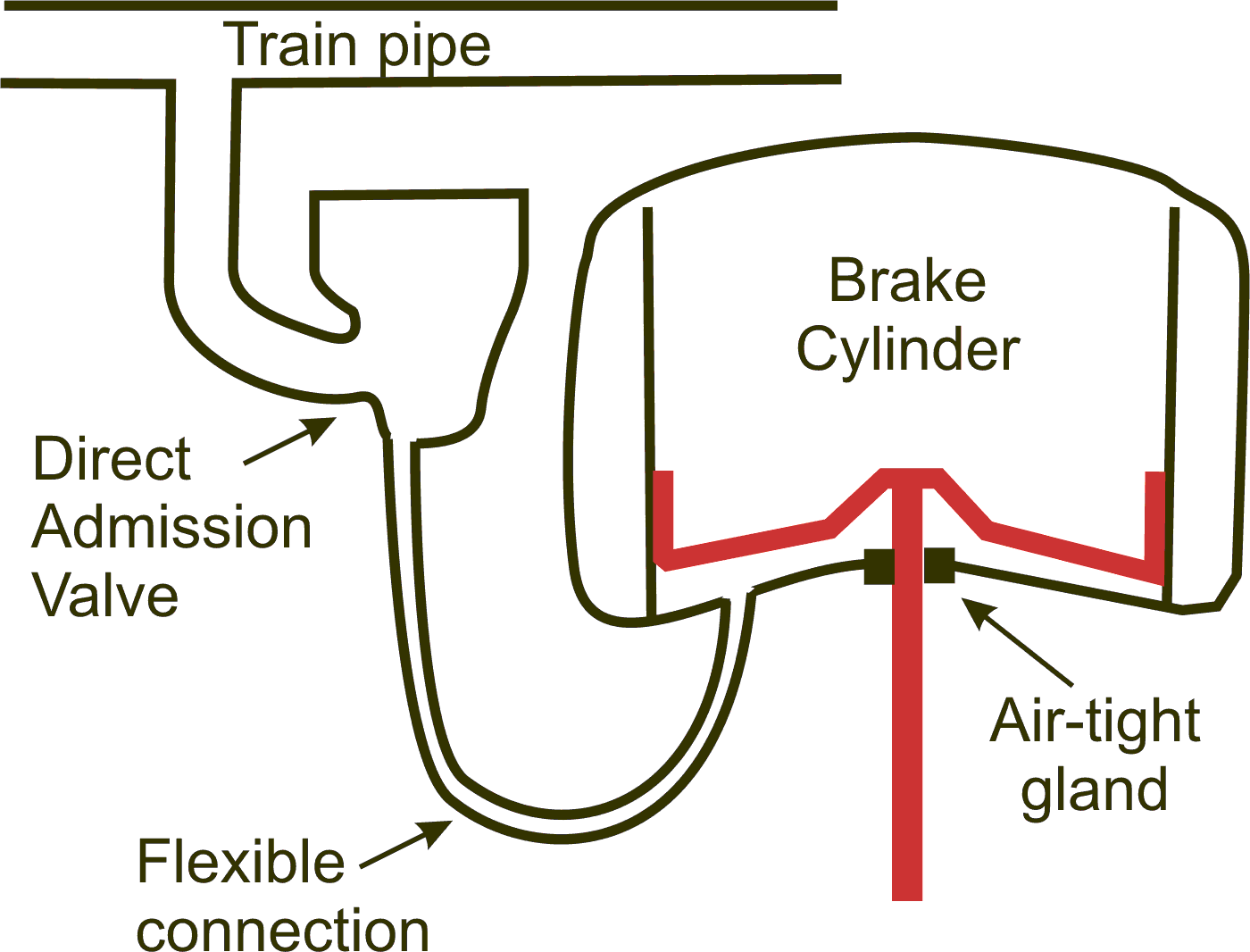 Schematic drawing of railway automatic vacuum brake cylinder and attachments